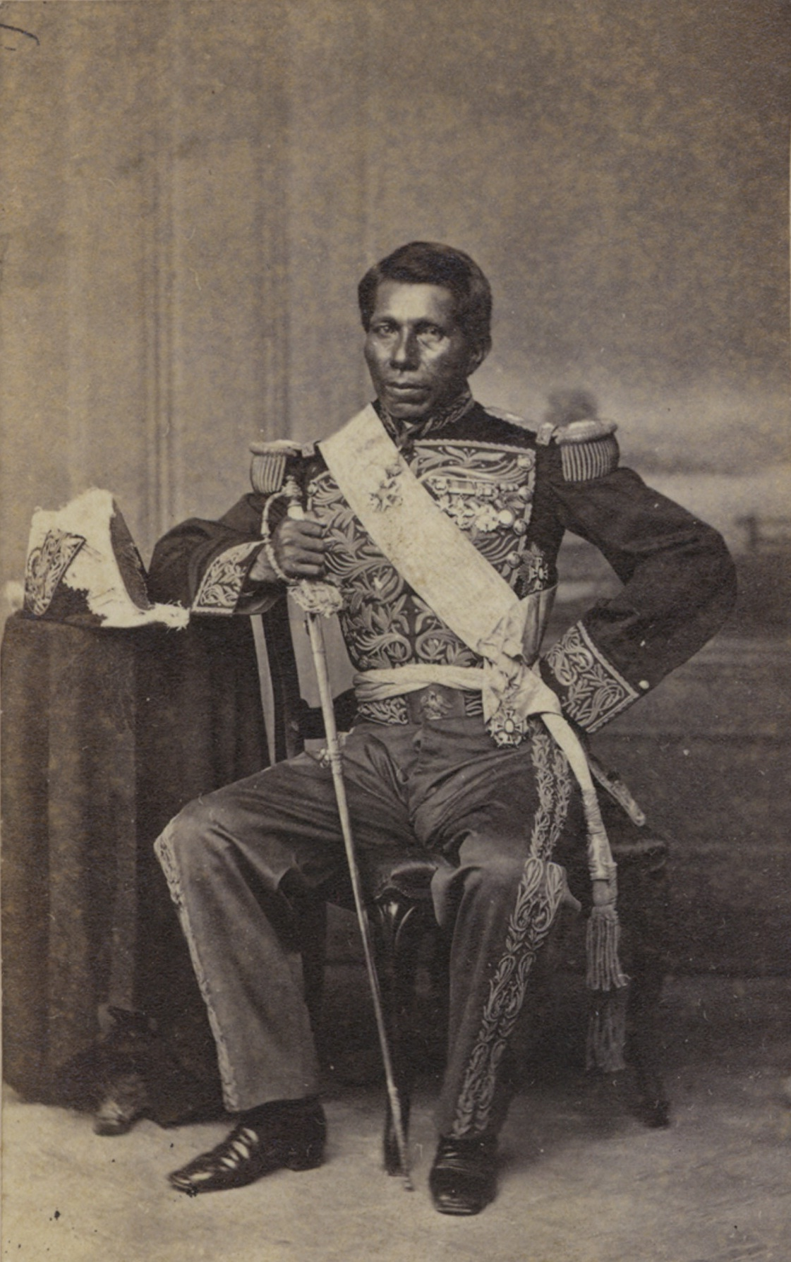 Mexican General Tomás Mejía in Matamoros